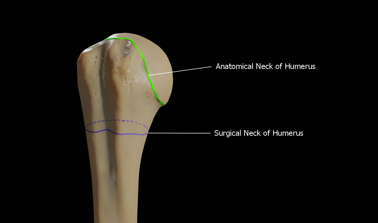 The anatomical neck is the groove that surrounds the articular surface of the head of the humerus. This is where the joint capsule is attached. The surgical neck however, is a segment present inferior to the humeral head. This acts as a connection between the head and the shaft of the humerus.